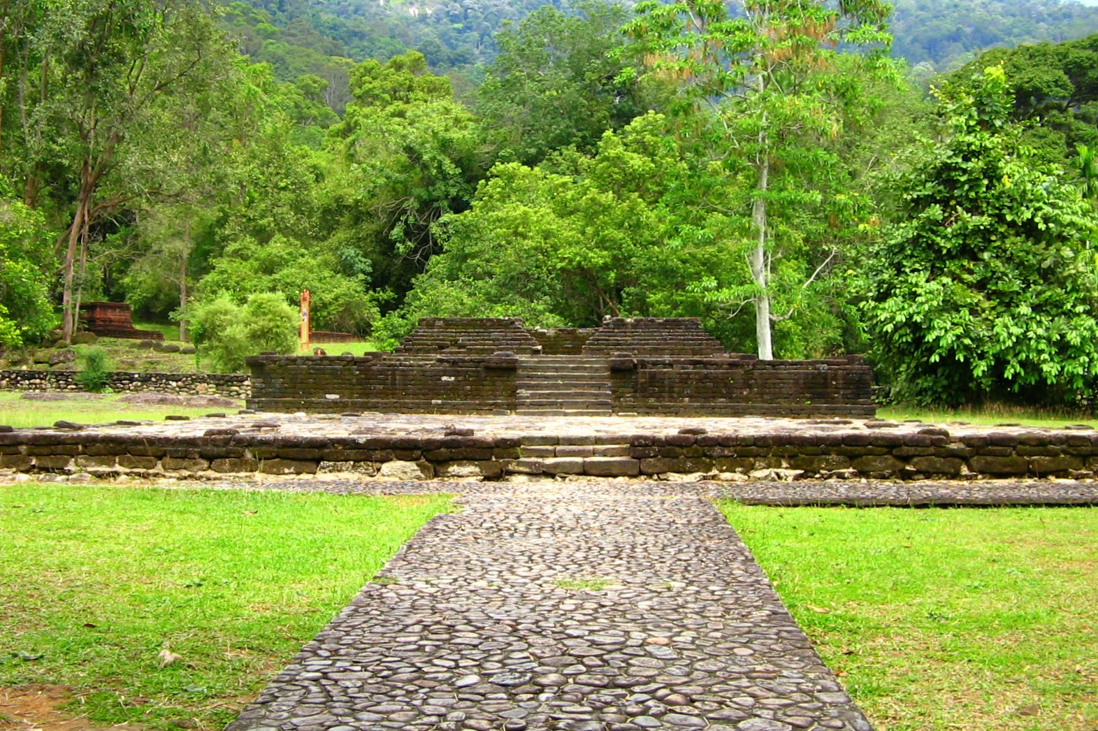 Candi Bukit Batu Pahat – The Bujang Valley or Lembah Bujang is a sprawling historical complex and is approximately 224 square km large. Situated near Gurun, between Gunung Jerai in the north and Sungai Muda in the south, it is the richest archaeological area in Malaysia.